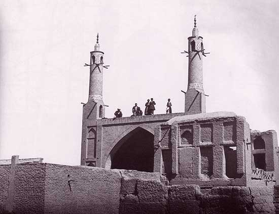 Menar-e-jomban, Isfahan, Iran